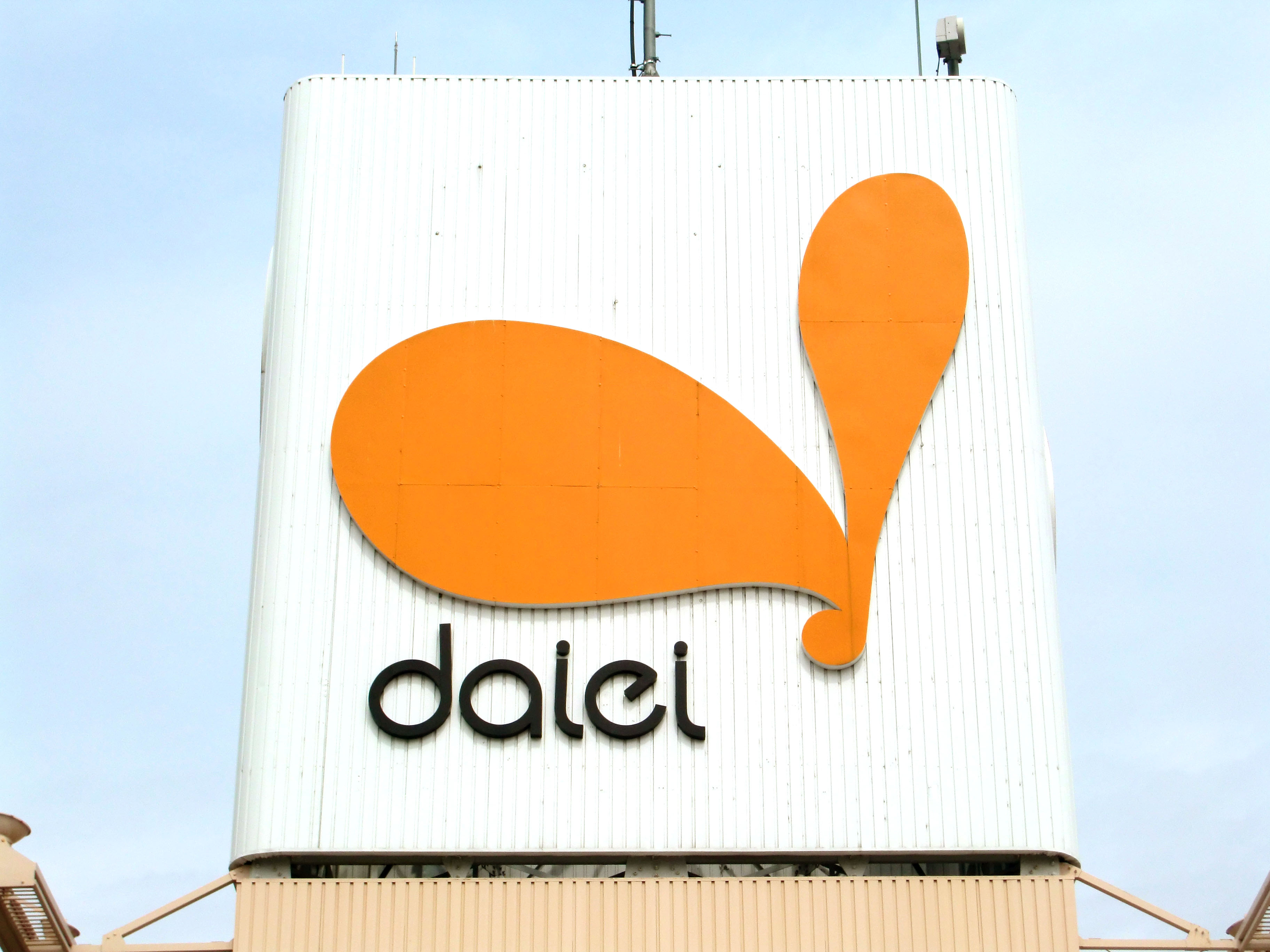 Daiei Settsu-Tonda,13-1 Ohata-cho Takatsuki-City Osaka Japan.